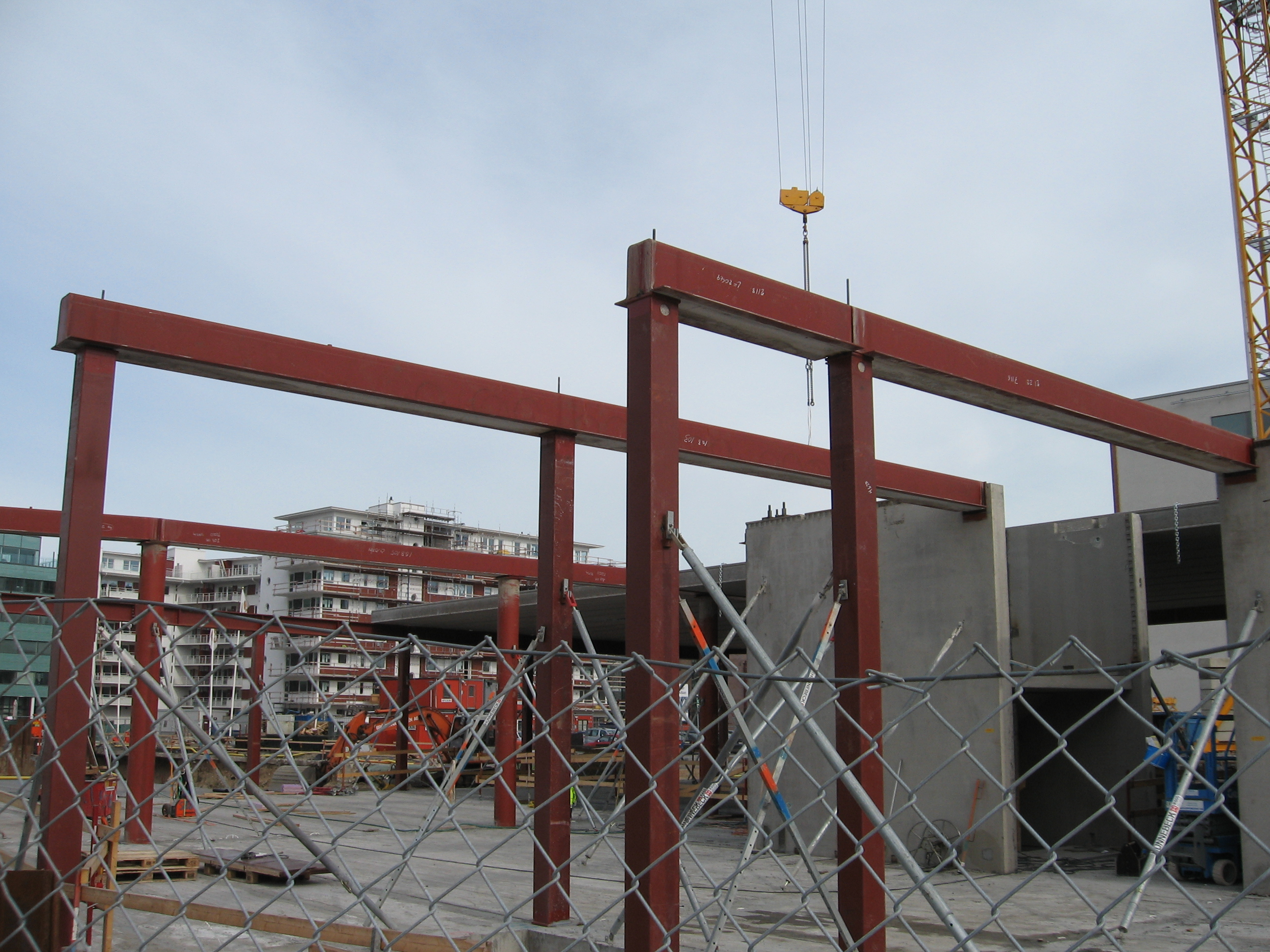 IQB-girder Skrovet 5 Malmö